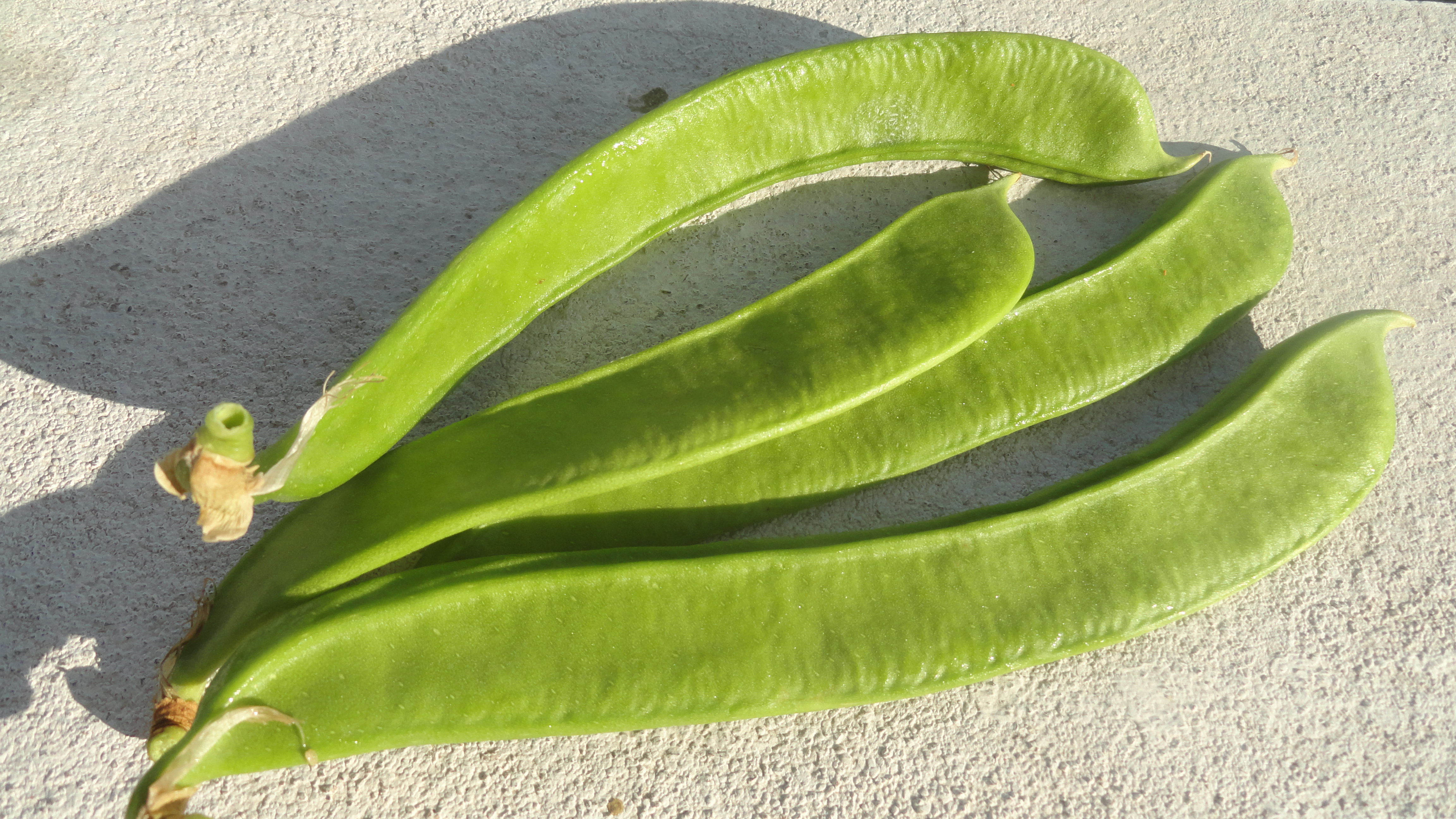 One type of vegetables very common in olden days and very rare at present : name TAMBA in Telugu